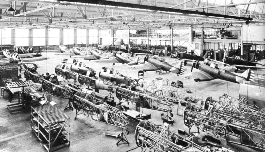 Production of BT-9's by North American Aviation Inc., Inglewood, California (USA), in 1936.